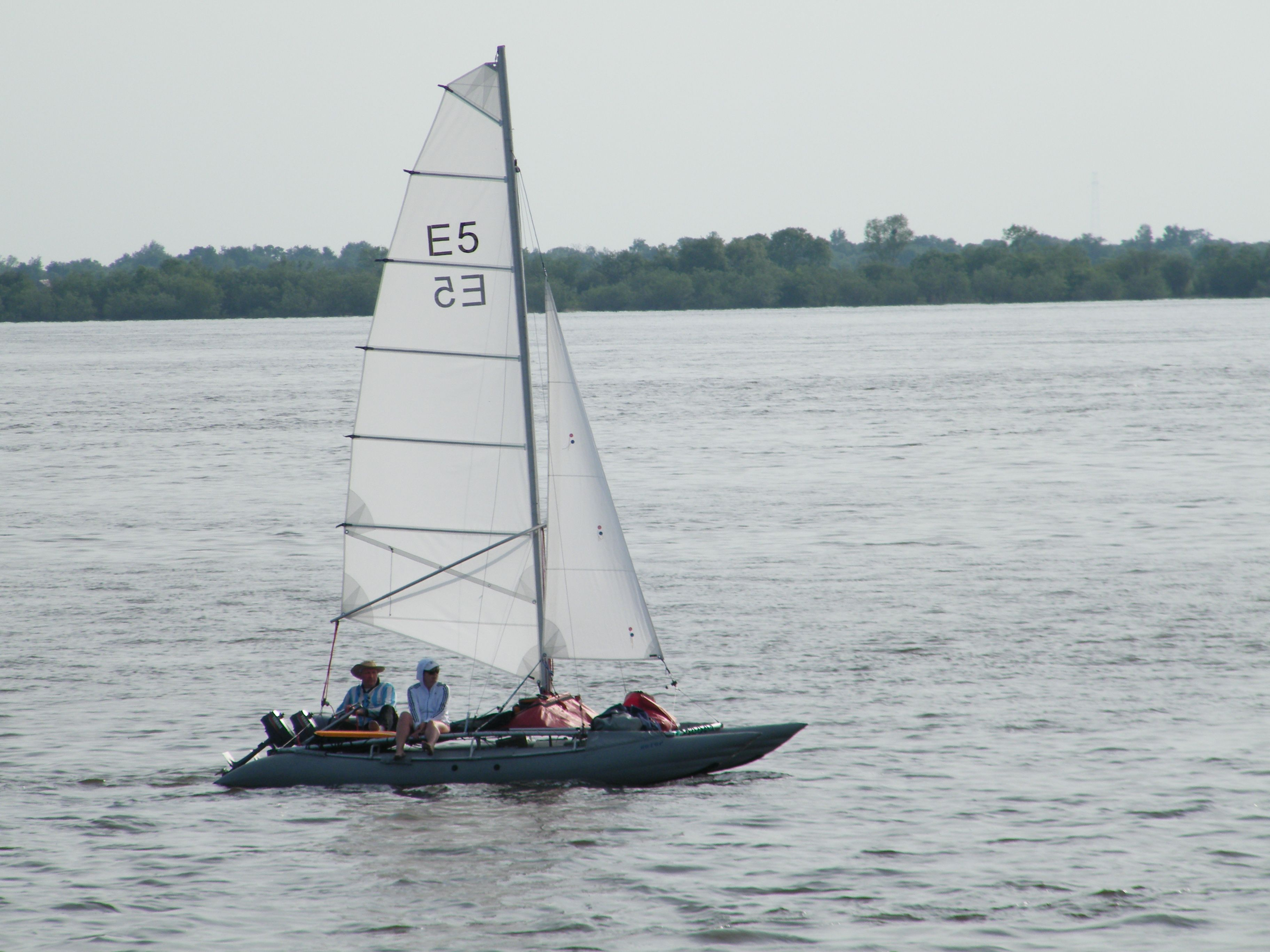 Inflatable boats, sailing catamaran